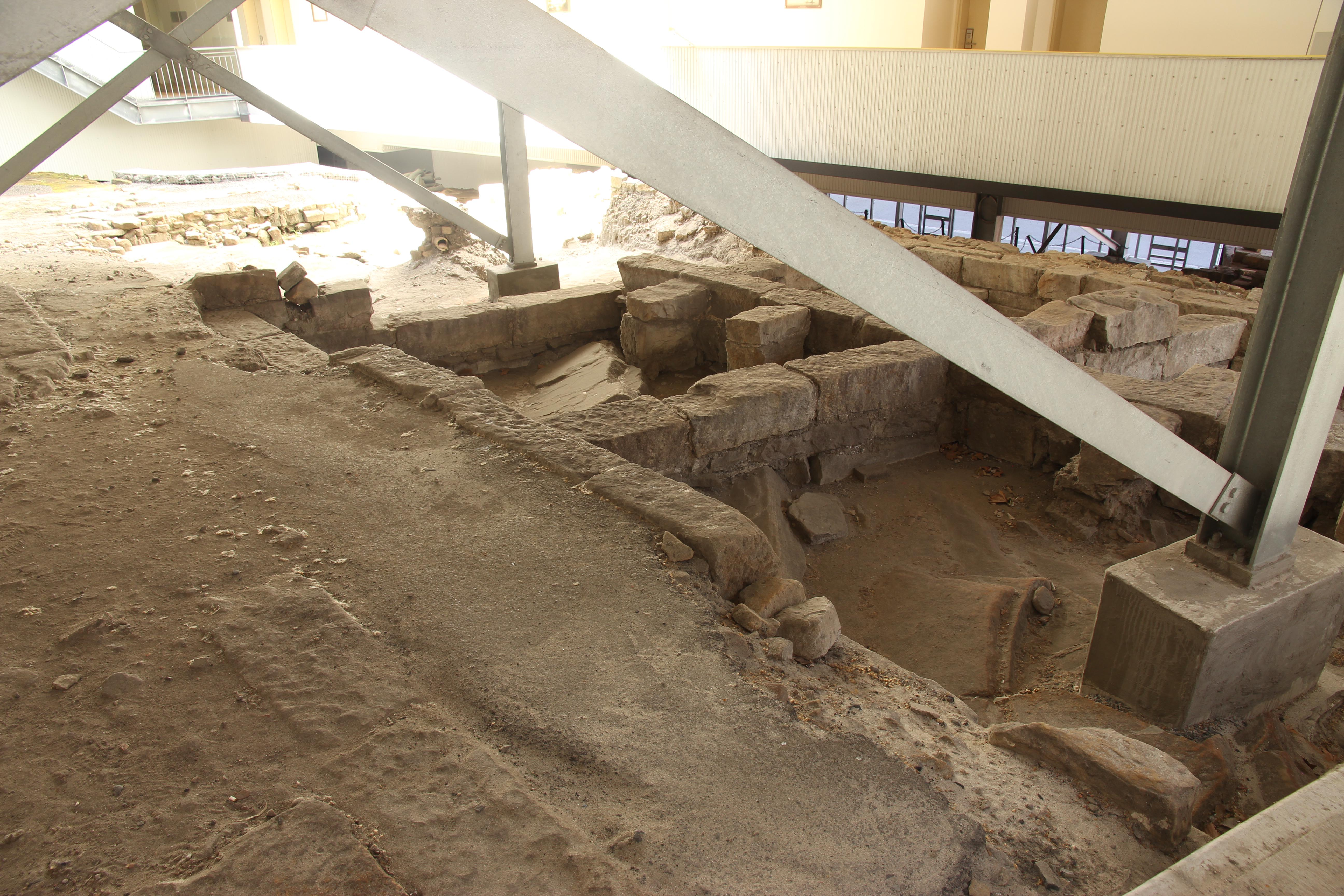 Cumberland Street Archaeological Site, an archeological remains site adjacent to the YHA Sydney, commonly called "The Big Dig", located in the Long's Lane Precinct between Cumberland and Gloucester Streets in The Rocks, City of Sydney, New South Wales, Australia